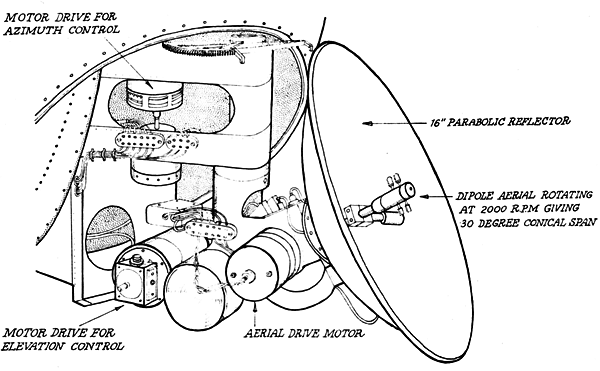 A diagram of the Village Inn AGLT scanner system on a Frazer Nash FN150 tail turret.